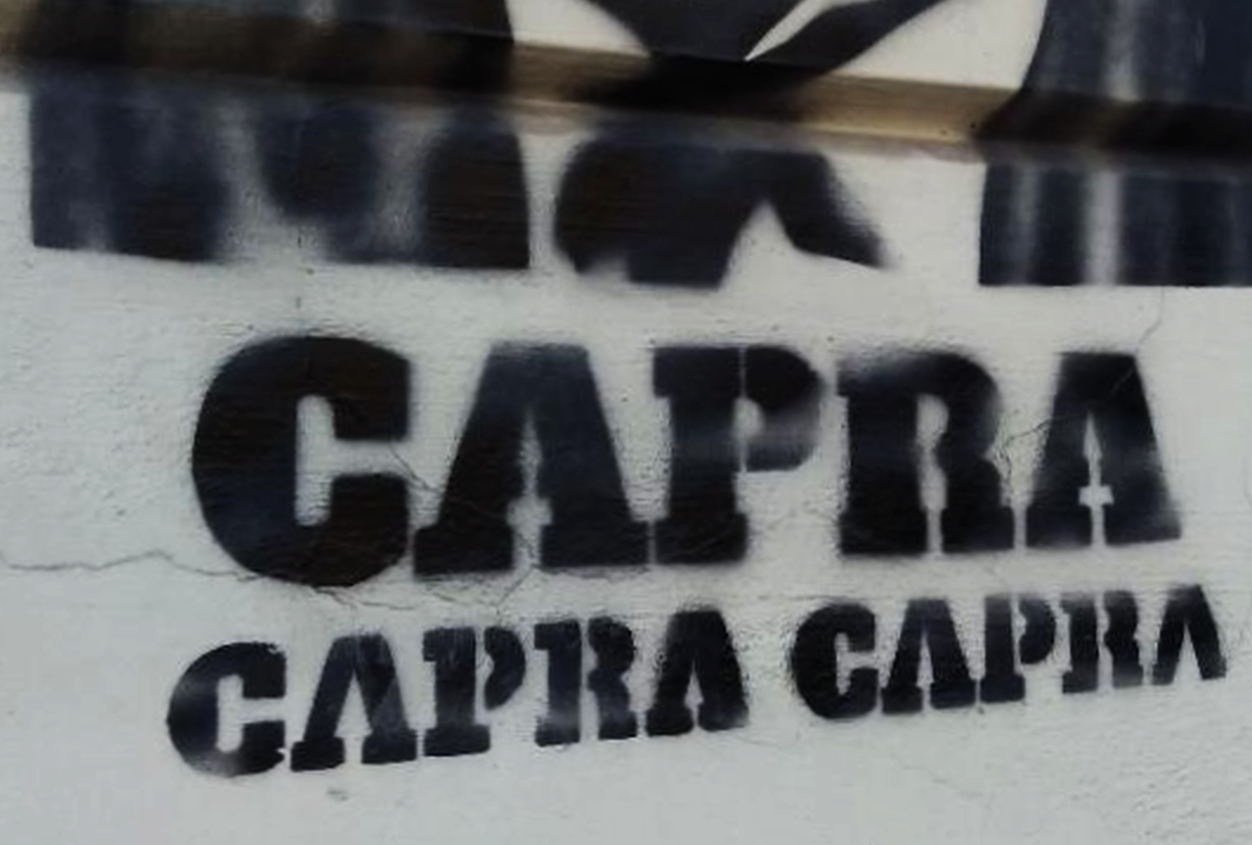 CAPRA CAPRA CAPRA (GOAT GOAT GOAT") - stencil in Turin (Italy), quoting an insult shouted by Vittorio Sgarbi to Aldo Busi durinng a TV talk show in octrober 2002